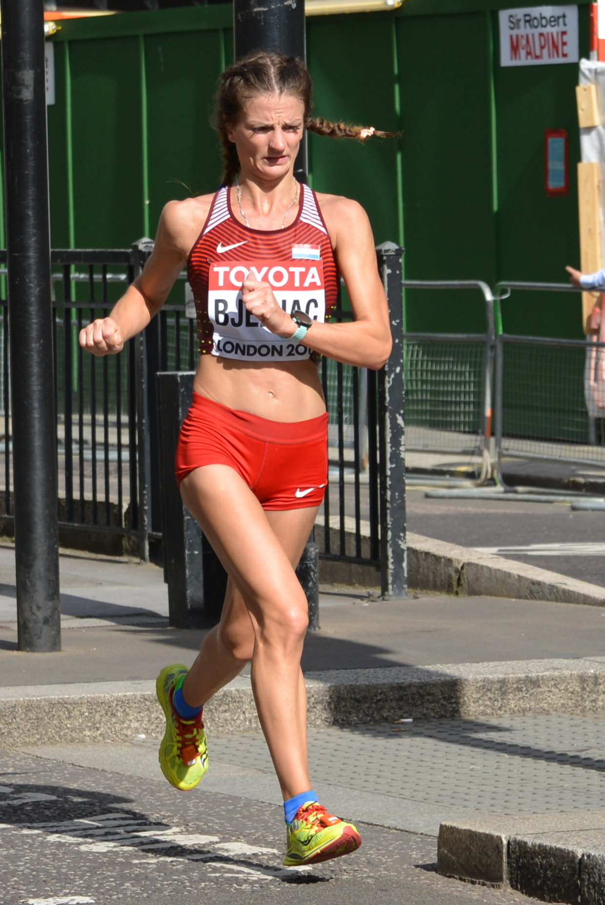 London 2017, Women Marathon- 06/08/2017